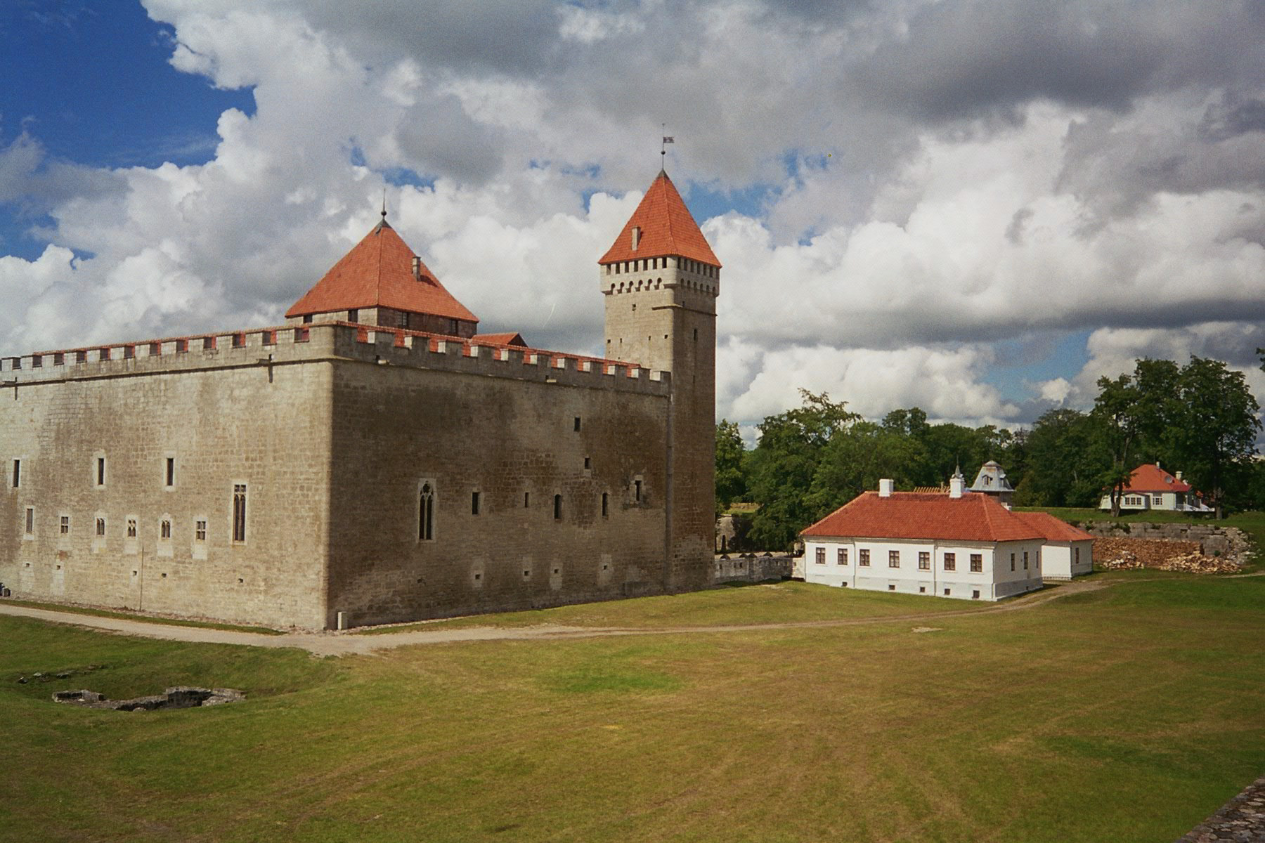 Bishop's castle in Kuressaare, Estonia